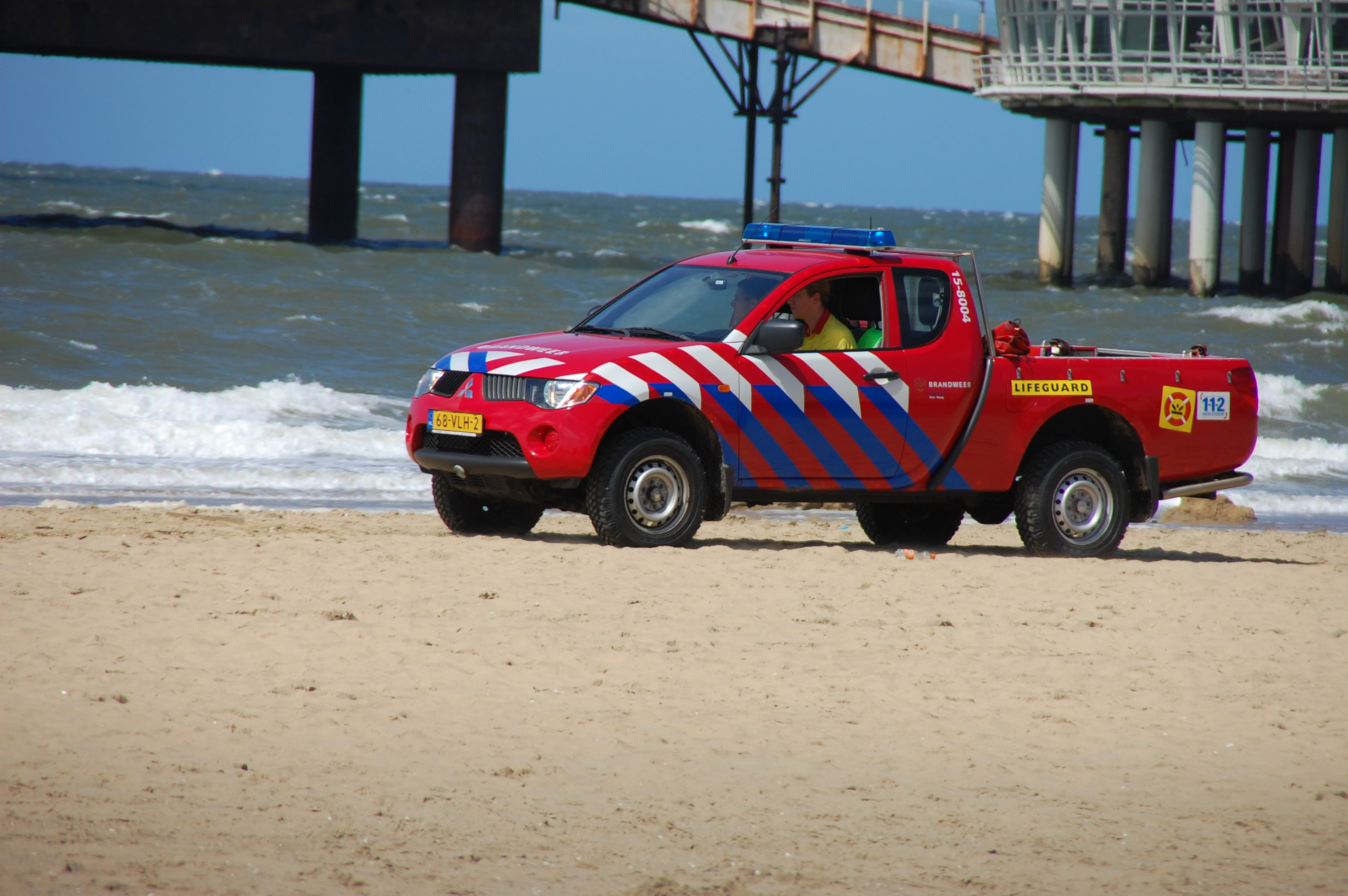 The Dutch Coastguard